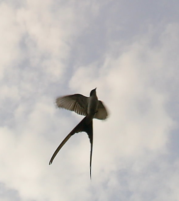 tesourinha